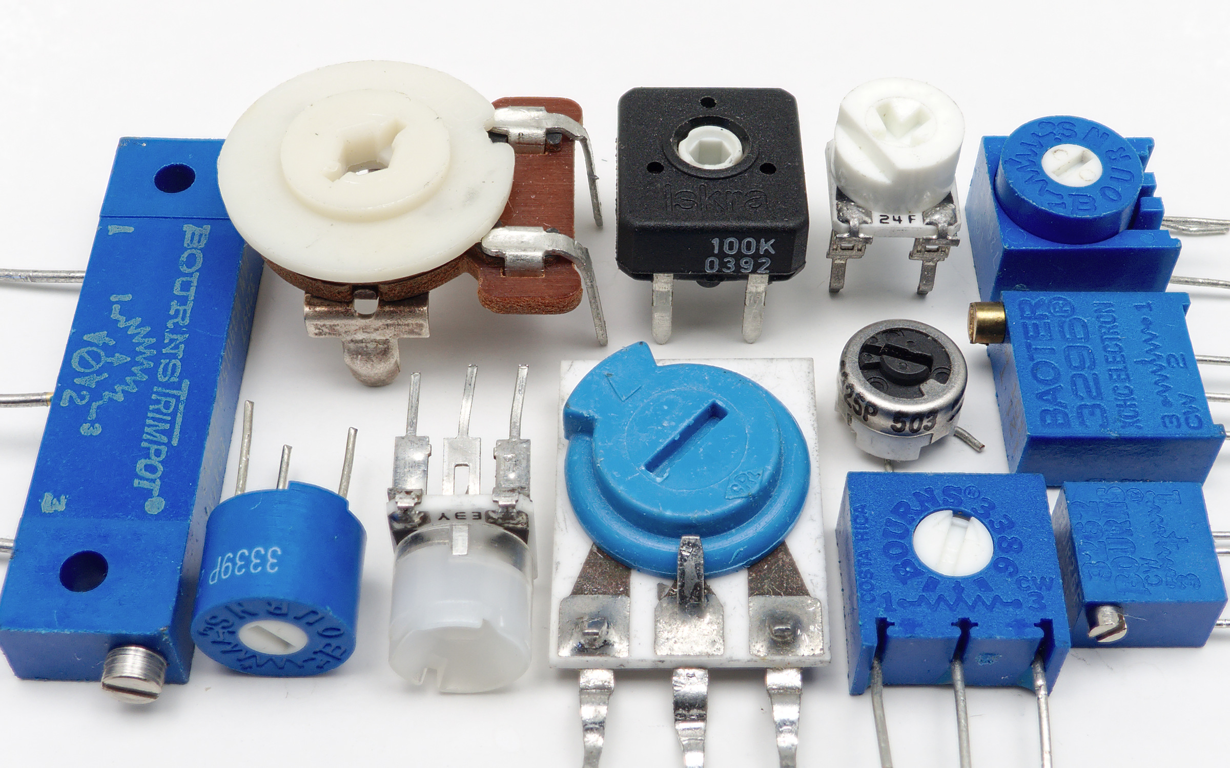 Twelve small through-hole board mounted potentiometers, or "trimpots", both single and multi-turn type. The largest, on the left, measures 32mm in length. Focus stacking of 5 pictures (using Enfuse).